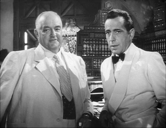 This screenshot shows Sydney Greenstreet and Humphrey Bogart in a discussion about whether Sam (Dooley Wilson) will come to work for Greenstreet.